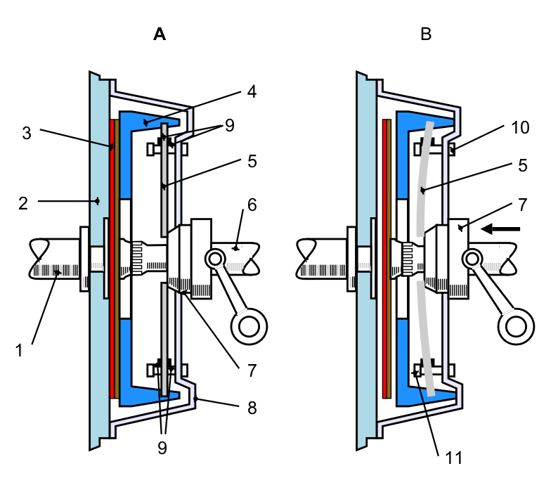 Clutch: parts and action